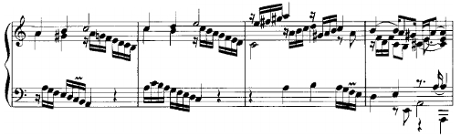 Opening bars of 4th variation of the partita "Ach wie nichtig" by Georg Böhm